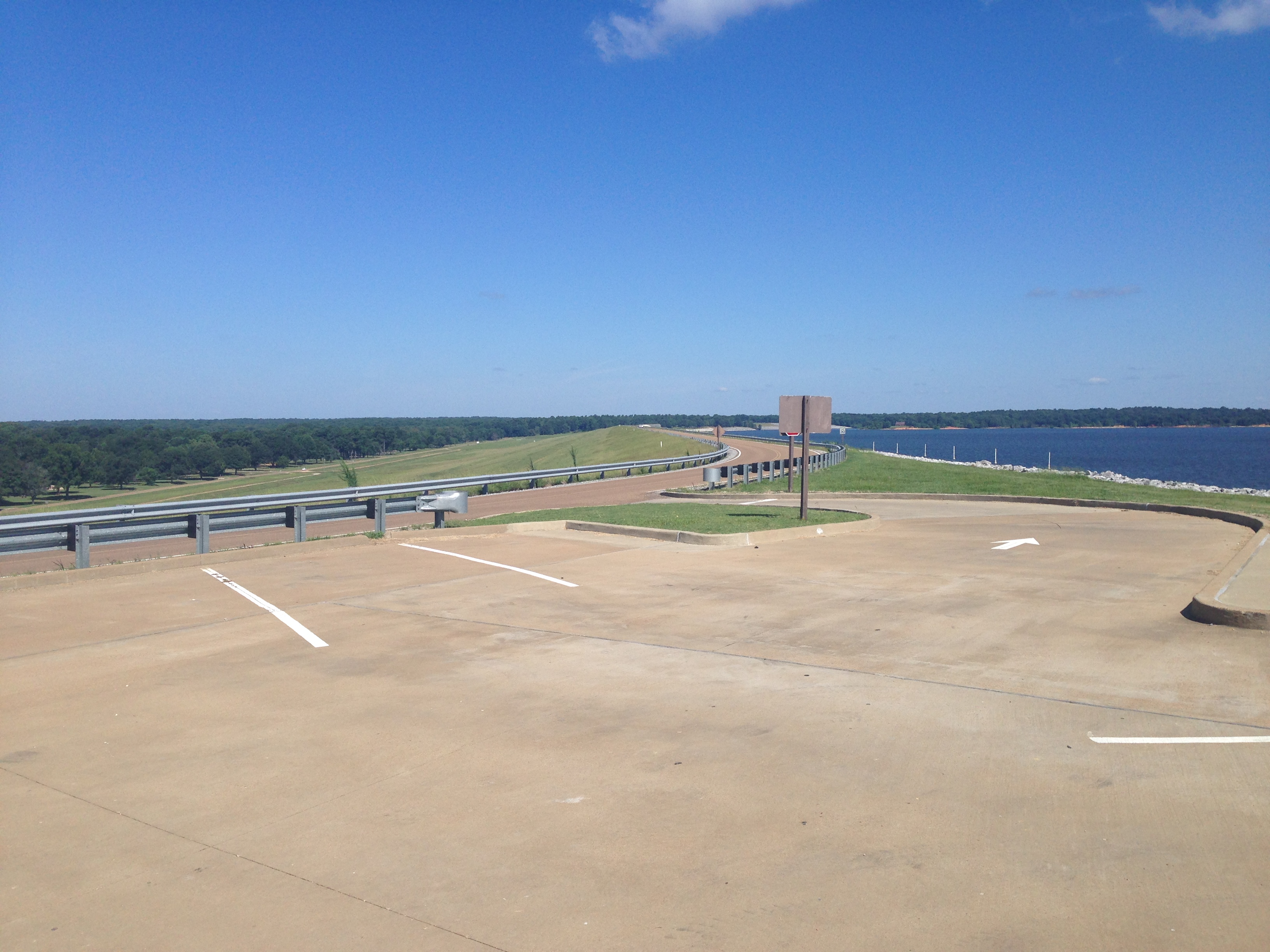 Looking north across the top of Sardis Dam, impounding Sardis Lake, along Mississippi Highway 315 in Panola County, Mississippi.